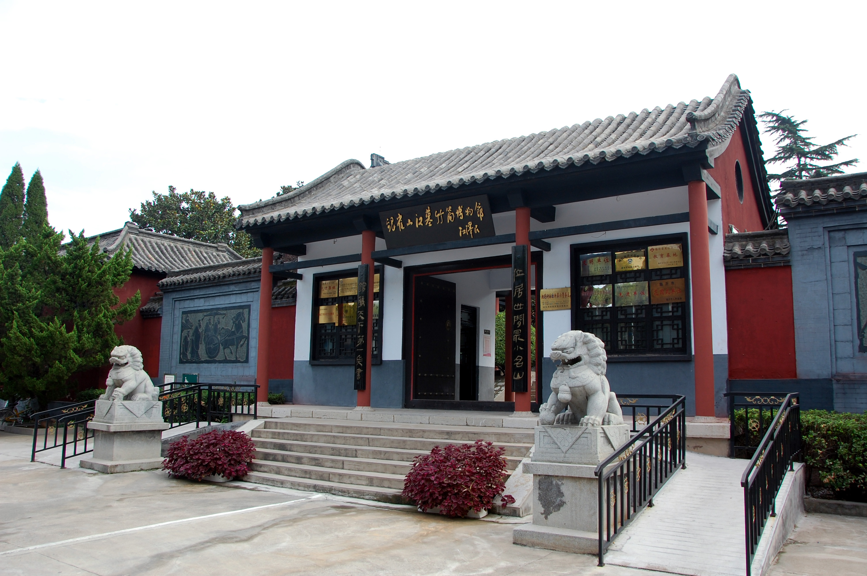 Yinqueshan Han tomb museum, Linyi, Shandong